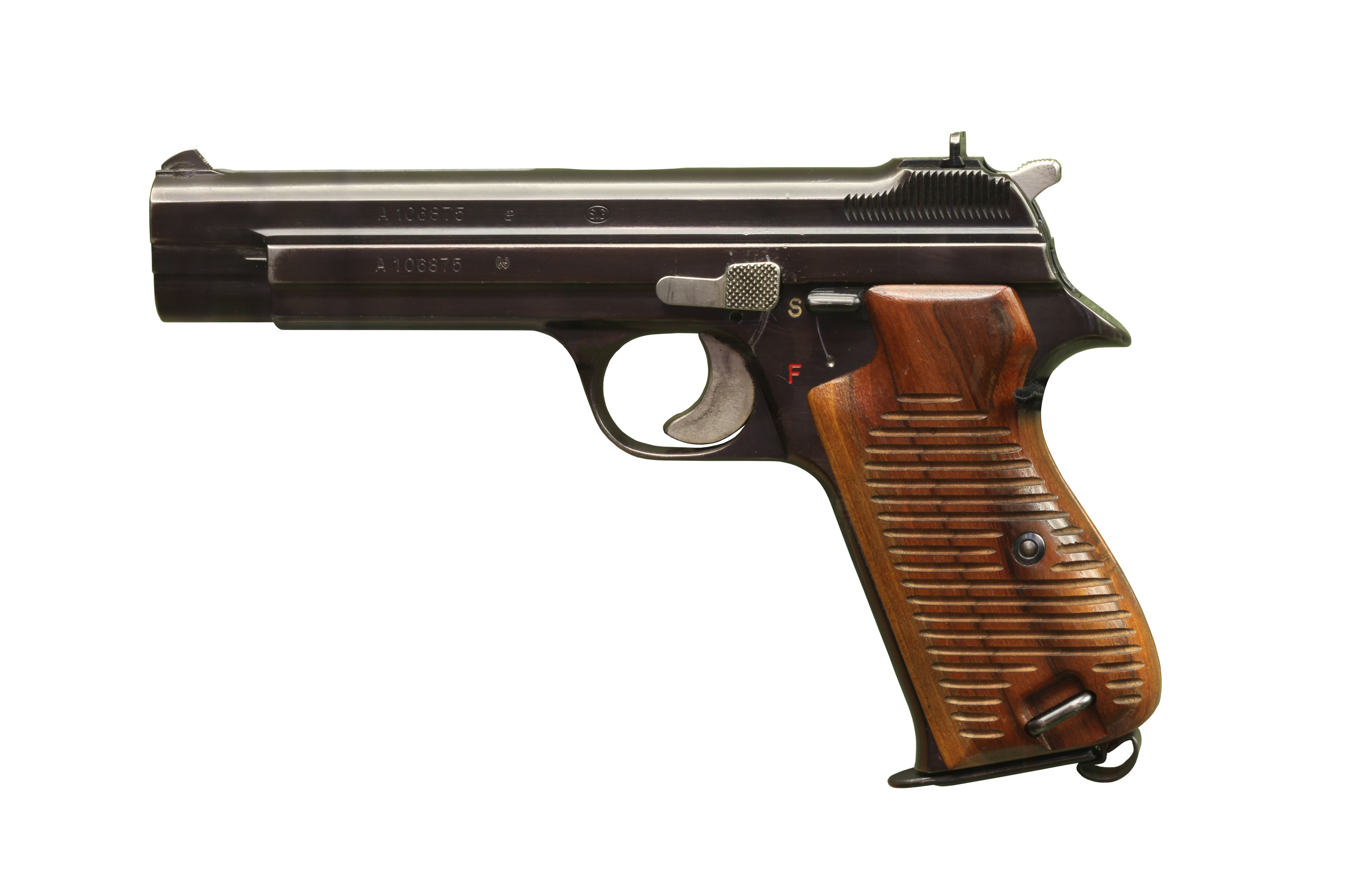 SIG P210, 1st series. On display at Morges military museum, accession number MMV 1004050 Serial number A 106875, making it a Swiss Army weapon made in 1950 or 1951, model P49 [1].